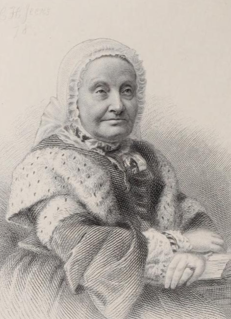 The British artist and author Frances Bunsen, 1791-1876 was the wife of Carl von Bunsen, long serving Prussian Ambassador to Britain in the mid-19th Century. She was also the sister of Augusta Hall, Lady Llanover, a prominent patron of Welsh culture. This 1874 portrait by C.H. Jeens is from the fly cover of volume 2 of the 3rd edition (1882) of her biography by Augustus J. C. Hare.